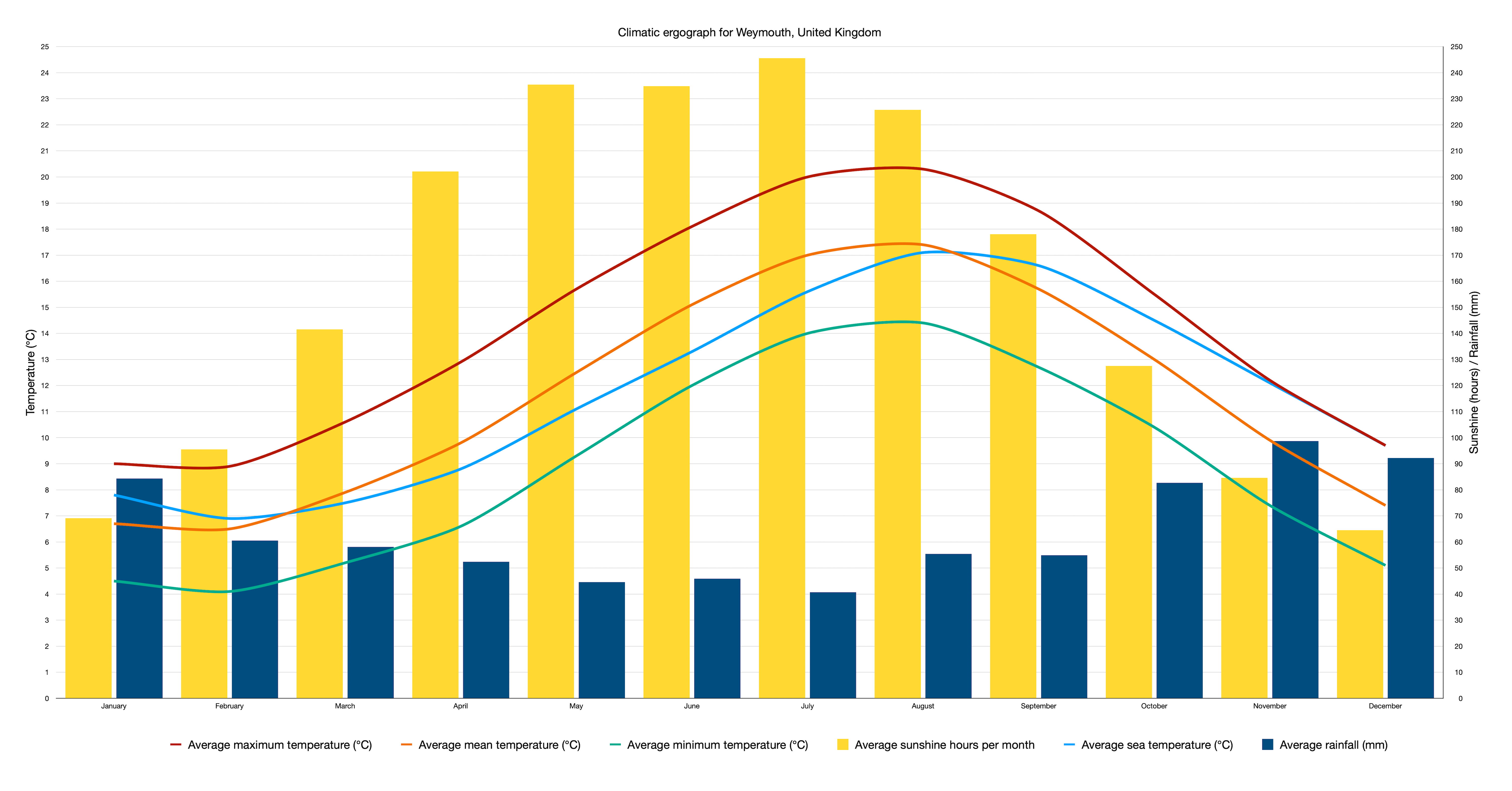 Climatic graph of Weymouth and Portland (data source: WPBC)